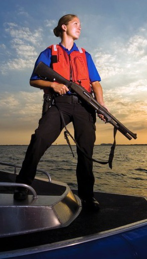 SrA Amanda Stinson keeps a watchful eye over the MacDill Air Force Base, Fla. shoreline. Established on Sept. 11, 2001, Airmen of the 6th Security Forces Marine Patrol have been protecting the base waterways and the high profile targets of the U.S. Central Command and U.S. Special Operations Command.